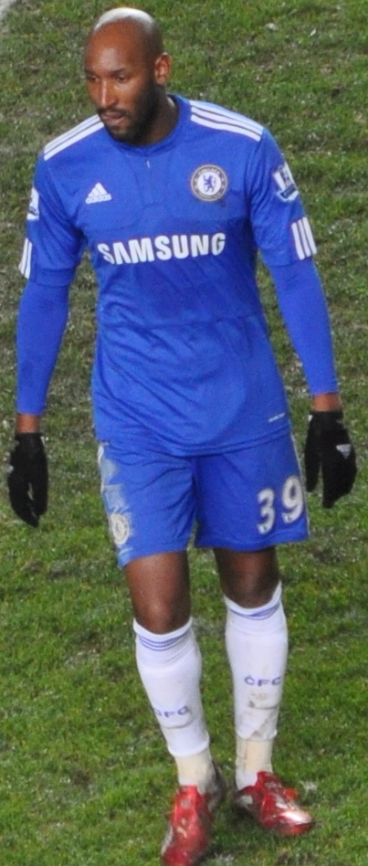 Nicolas Anelka